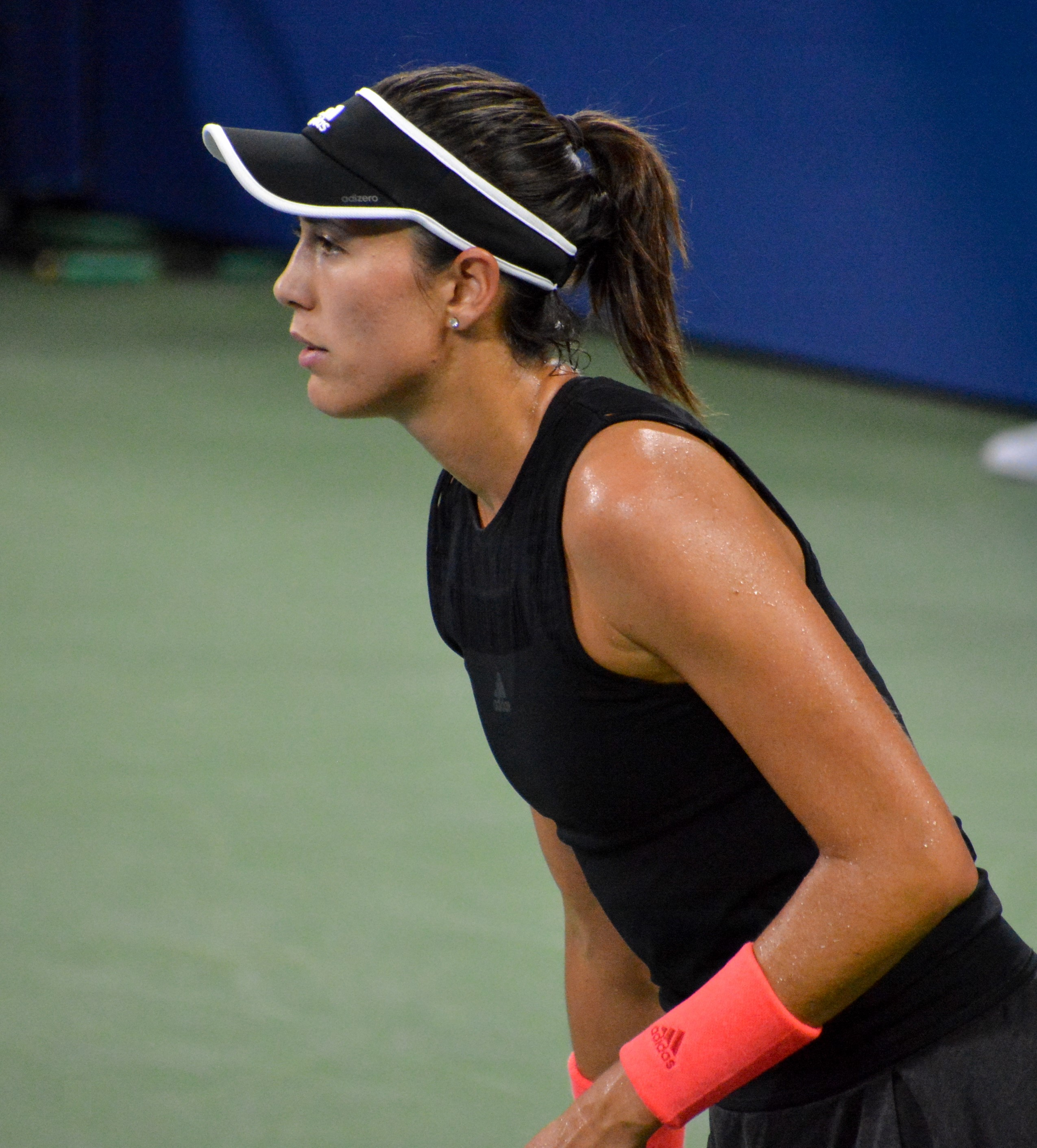 Garbiñe Muguruza during her 2nd round match against qualifier Karolina Muchova. Muchova won 3-6, 6-4, 6-4, after being 0-5 down in the first set. Day 3 of US Open 2018.